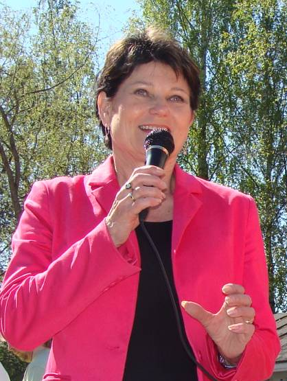 Finnish politician (Social Democratic Party of Finland) Sinikka Hurskainen in Imatra